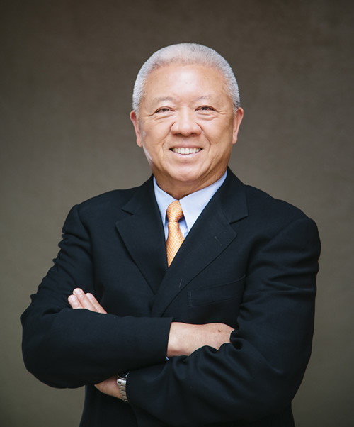 Chinese-American businessman Andrew Cherng